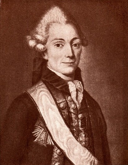 Heinrich von Levetzow (1734-1820), Danish nobleman, courtier, and civil servant